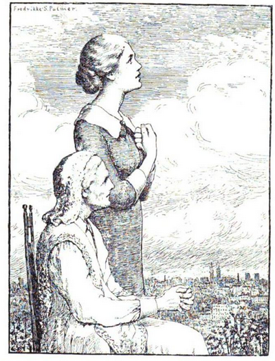 A drawing of two white women in profile; one is younger, standing, hands crossed on her chest; the other is older, seated, hands clasped over her lap. The setting is outdoors; the background is mostly sky and clouds, with a low horizon.